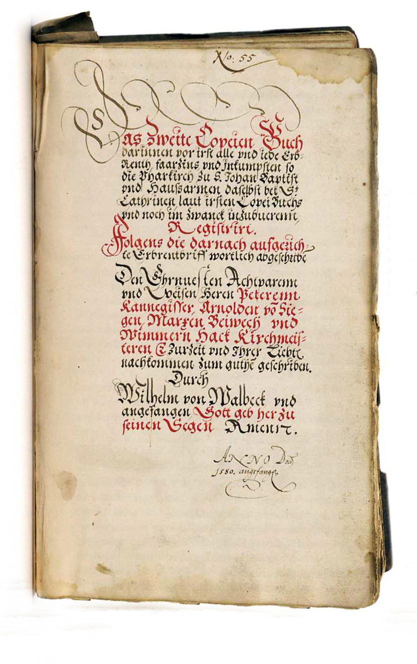 Parish register of St. Johann Baptist in the 16th century, Cologne